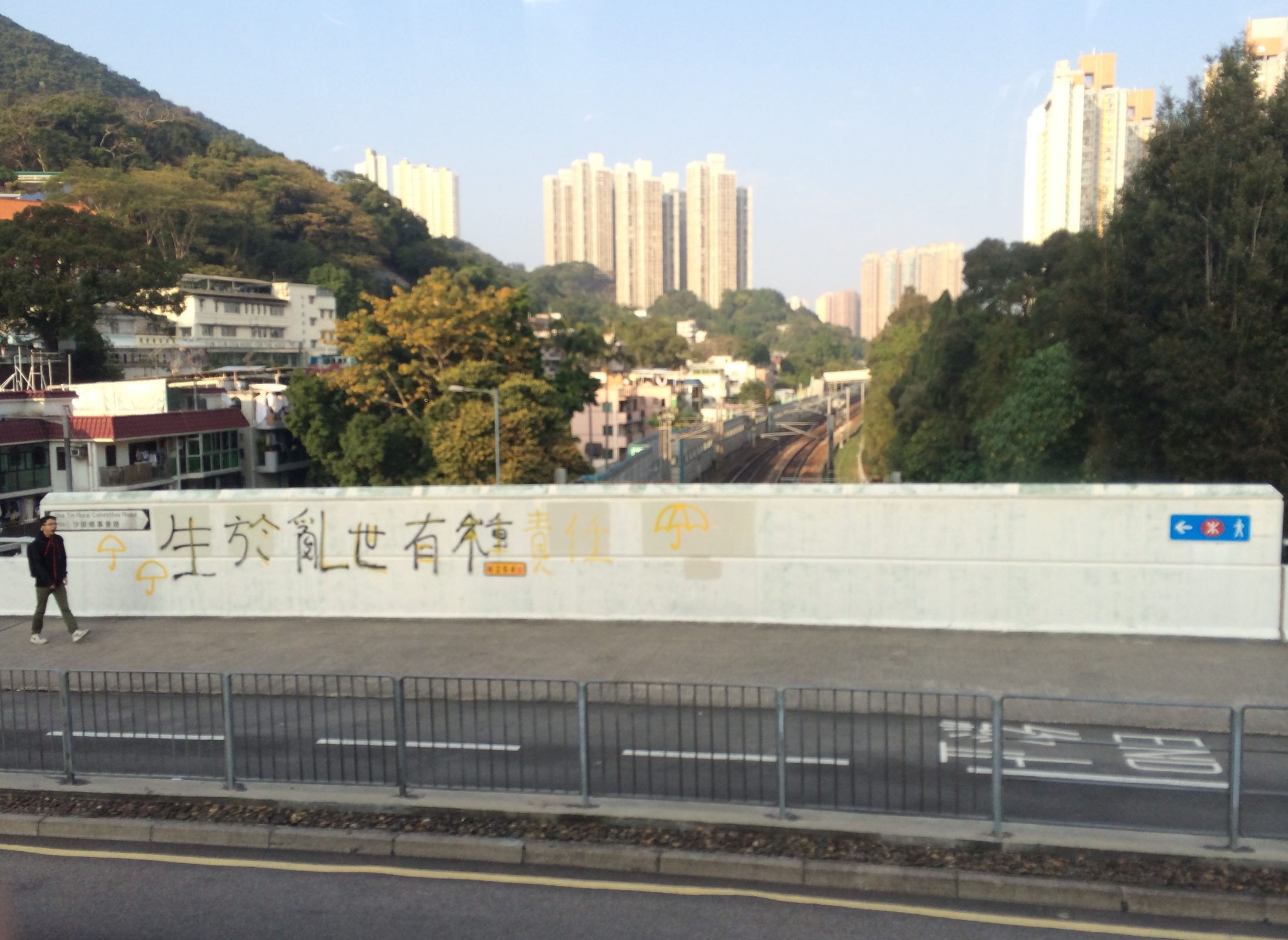 Shatin Graffiti Request for Real Universal Sufferage